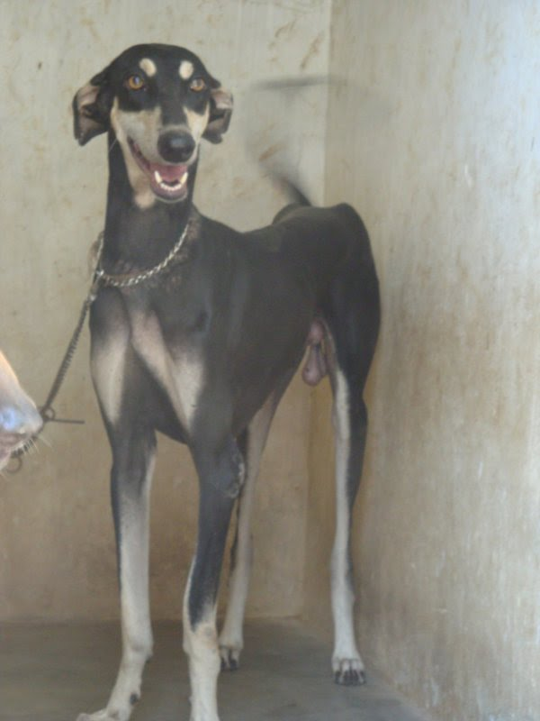 Fierce hunter